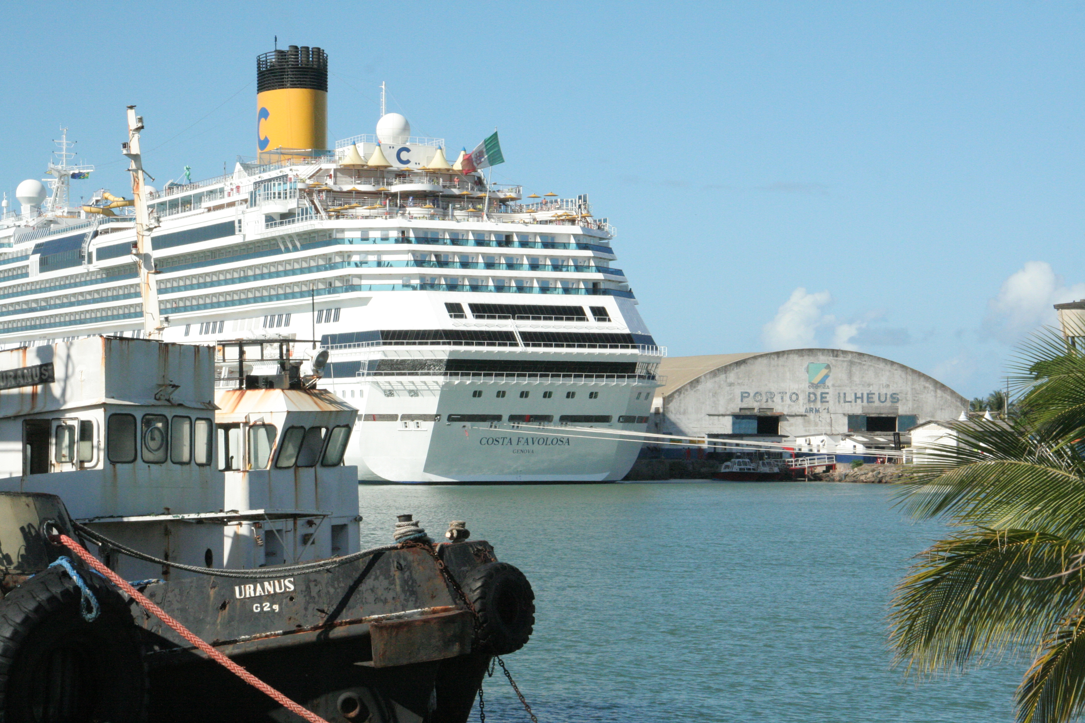 The Costa Favolosa at Ilheus (Brazil)